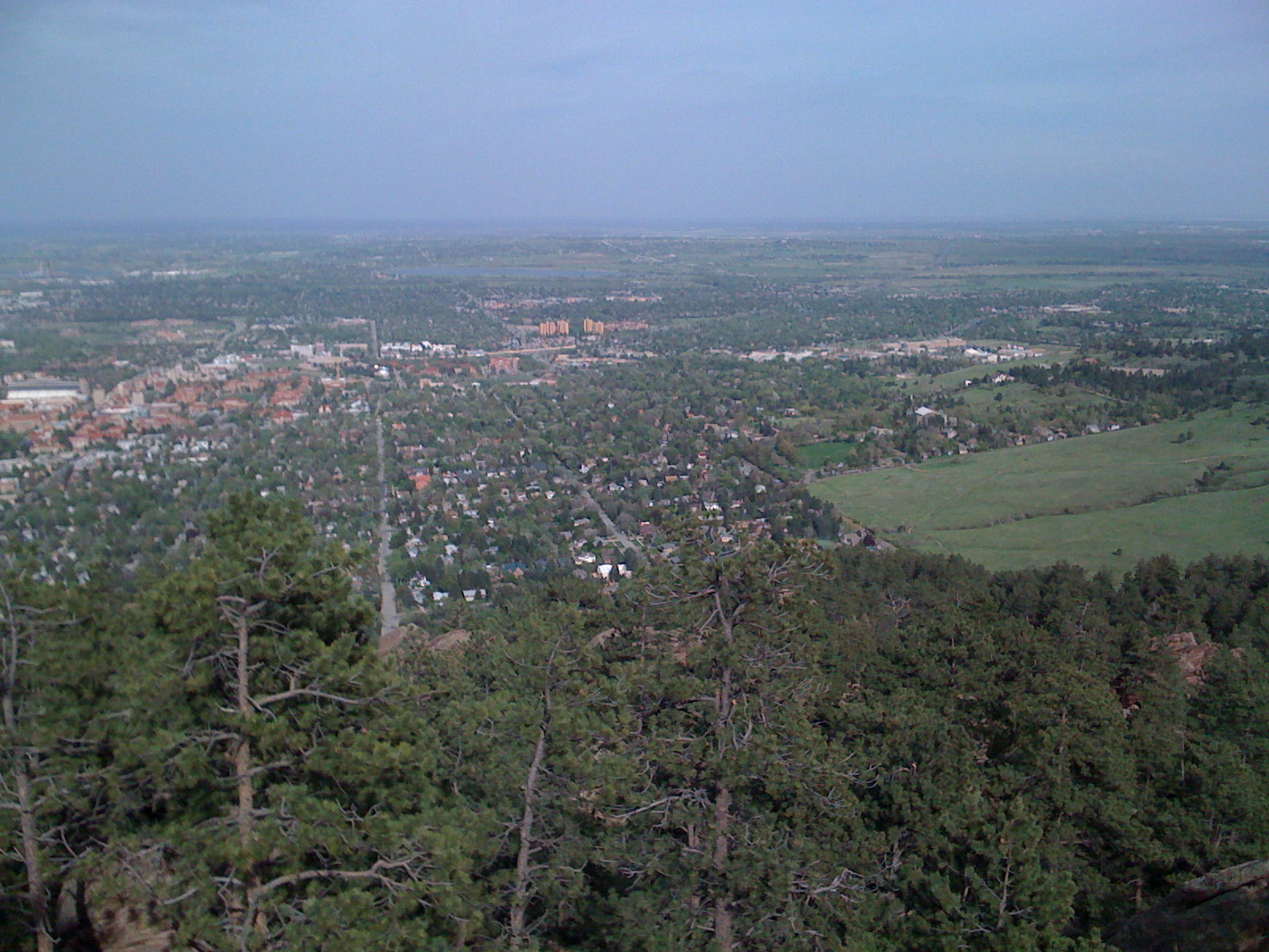 South Boulder from Flagstaff Mountain.